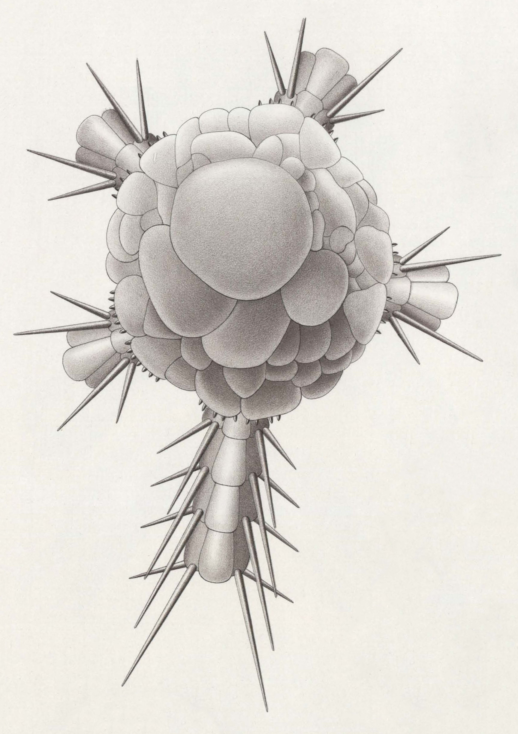 Planche VI fig. 38 : "Ophiocten megaloplax ; face dorsale. G = 25." Title: Résultats du voyage du S.Y. Belgica en 1897-1898-1899 : sous le commandement de A. de Gerlache de Gomery. Rapports scientifiques publiés aux frais du gouvernement belge, sous la direction de la Commission de la Belgica Topics:Scientific expeditions, Antarctica Publisher: Anvers : Impr. J.E. Buschmann Volume: R1, Zoologie, Échinides et ophiures